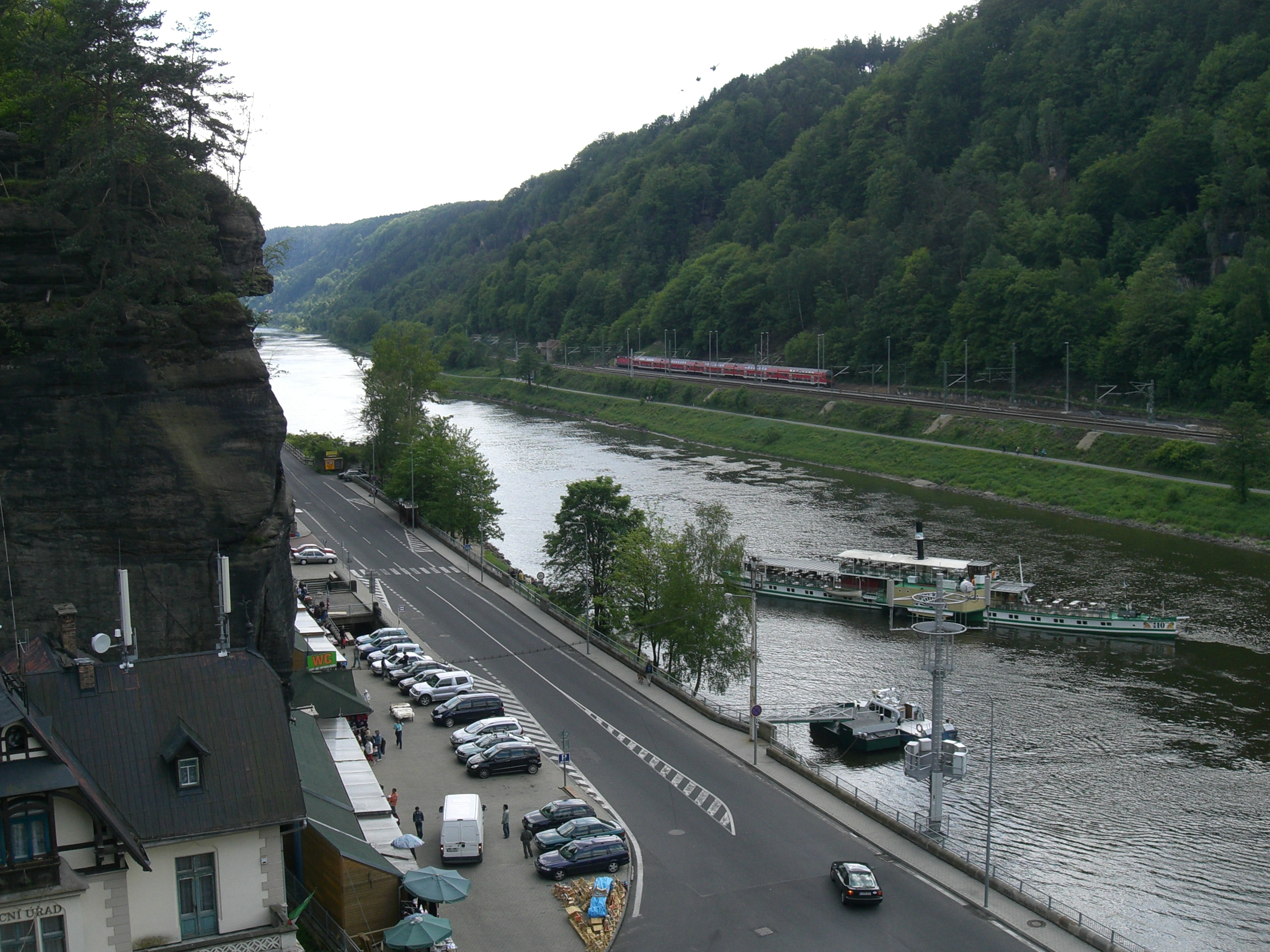 Hřensko village, Czech Republic.